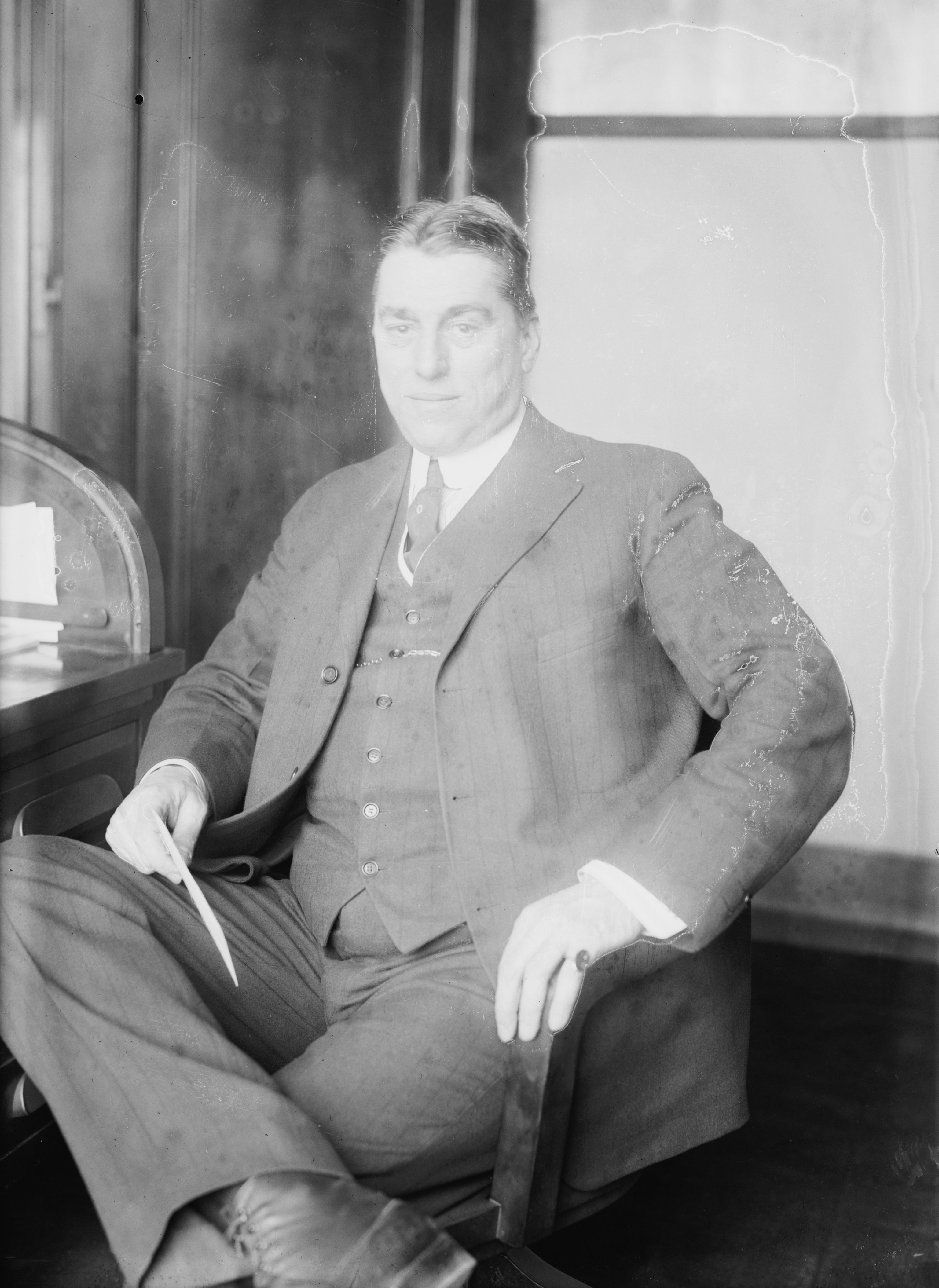 Henry Wilson Hodge (April 14, 1865 - December 21, 1919) circa 1915